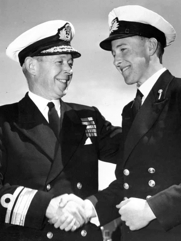 Cadet Midshipmen passing out at Flinders Naval Depot, Tony Dowling with his father, R. R. Dowling D.S.O., Commodore 1st Class.